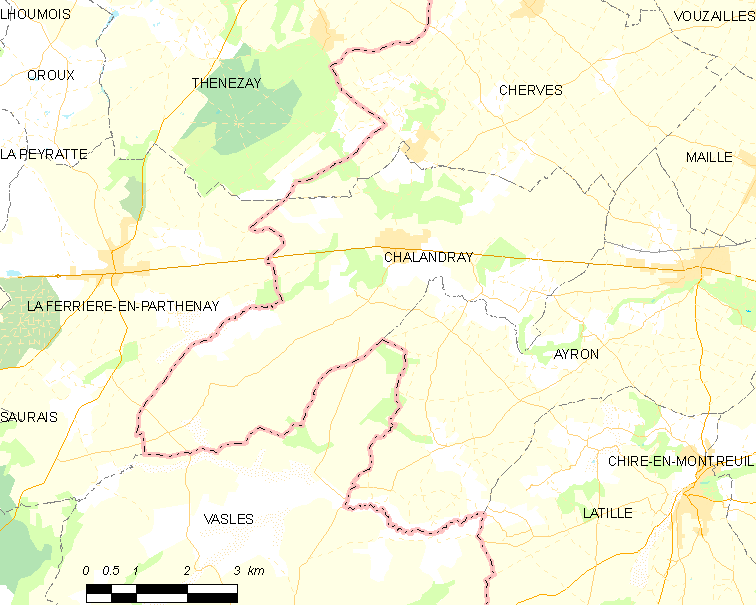 Map of French municipality Chalandray